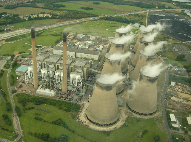 Grid Square SE4724, 15 total images Photographer Paul Johnston-Knight Image classification Supplemental image Date Taken Saturday, 17 September, 2005 Submitted Wednesday, 28 September, 2005 Category Power station Subject Location OSGB36: geotagged SE 478 248 [100m precision] WGS84: 53:43.0459N 1:16.6302W Photographer Location OSGB36: geotagged! SE 479 245